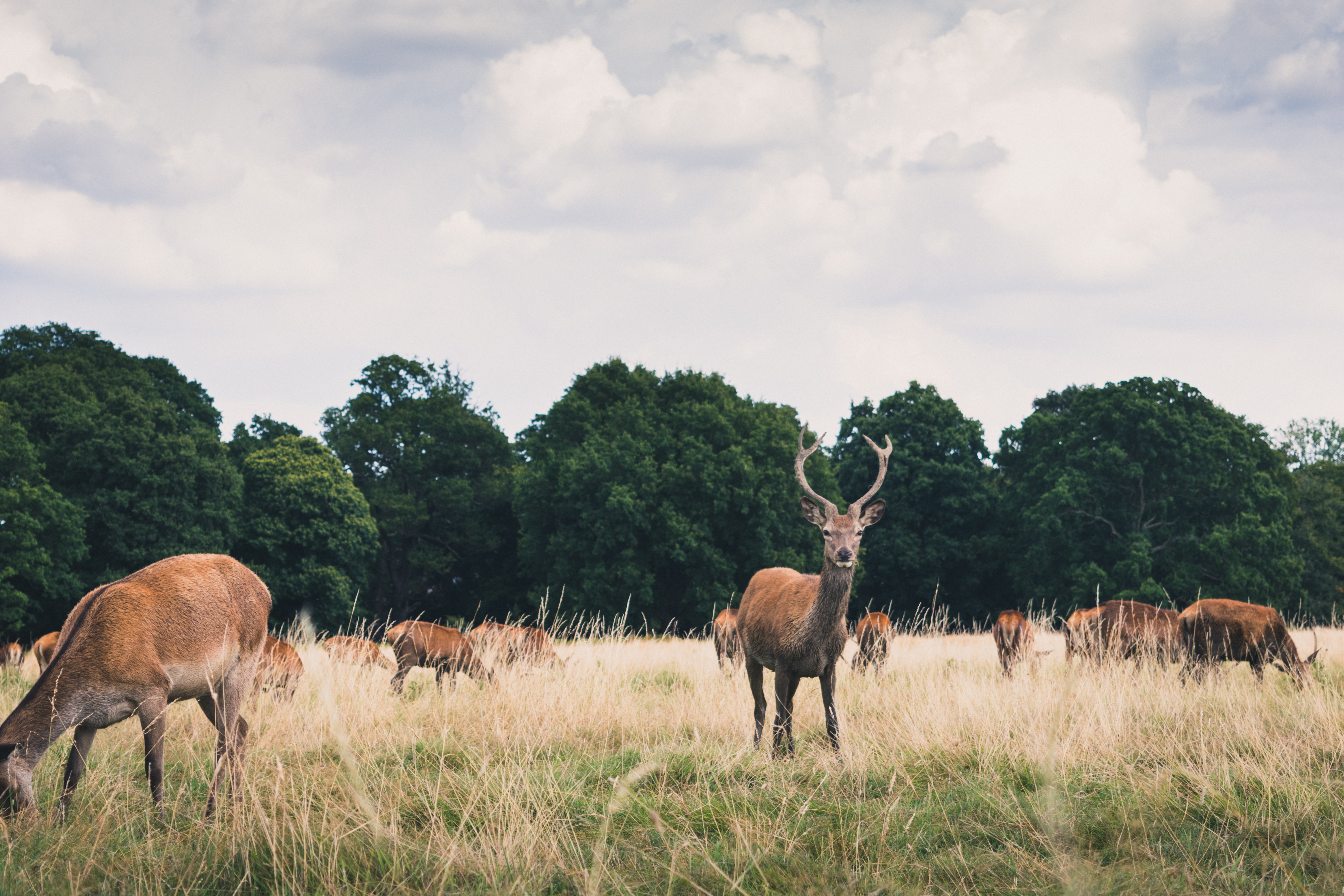 Richmond Park, Richmond, United Kingdom